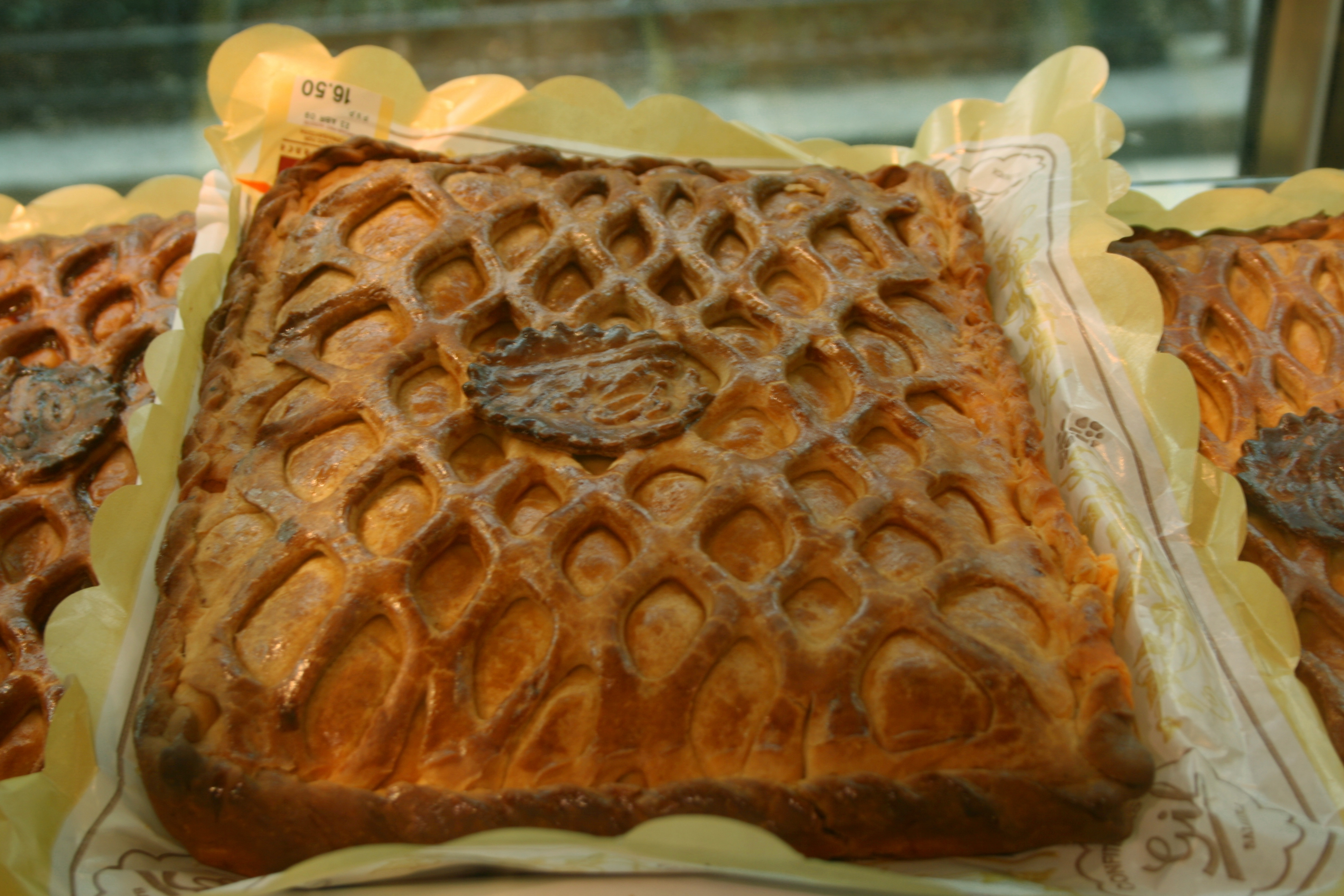 Spanish dumpling